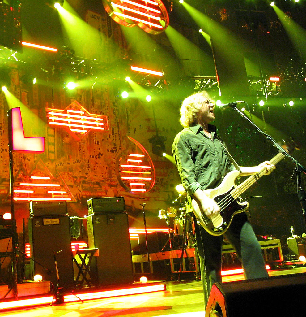 Mike Mills of the United States rock band R.E.M. on stage in Grand Prairie, Texas.